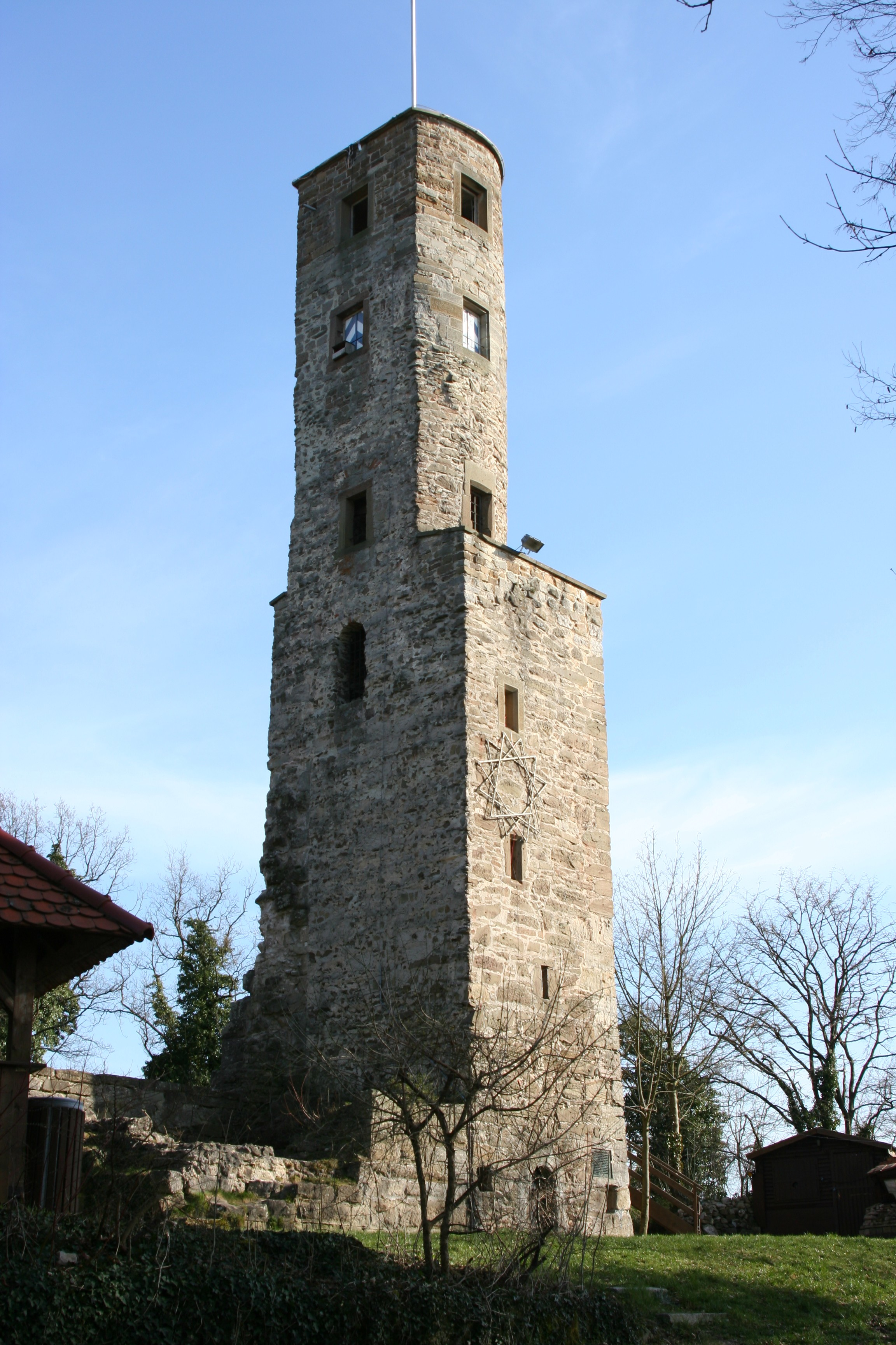 Löwenstein castle ruin. Tower